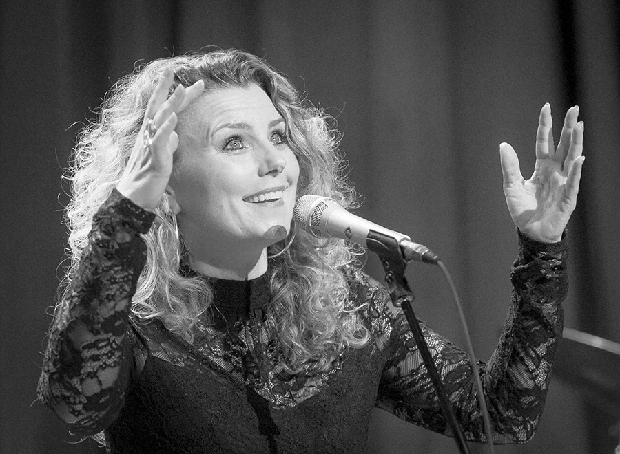 Hanne Tveter at the Belleville stage of Cosmopolite. The concert took place on 03. September 2016 in Oslo. This was the release concert for Hanne Tveter's album "My Footprints".Lineup:Hanne Tveter (vocal)Jorge Vera (keyboard)Yelsy Heredia (double bass)Raciel Torres (drums)Antonio Torner (percussion)Petter Wettre (saxophone)